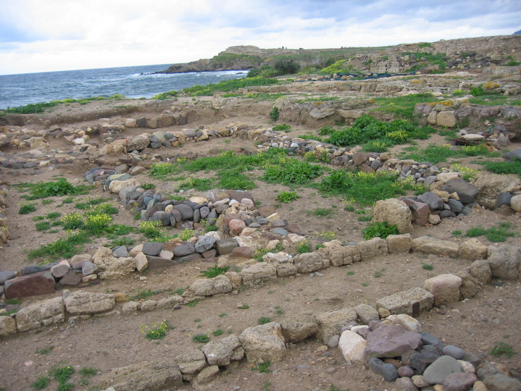 Punic area, Nora (Italy)